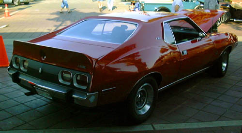 1974 AMC Javelin AMX Pierre Cardin edition. This one's fitted with the big 401 cubic inch V8, has all the factory Go Package options, and had the radio and some other accessories deleted at the factory for reduced weight. It's never been restored and is still owned and driven by the original 1974 purchaser. It's a regular attendee at the weekly Garden Grove, California Historic Main Street car show, at which it was photographed by User:Morven on Friday, May 21, 2004.